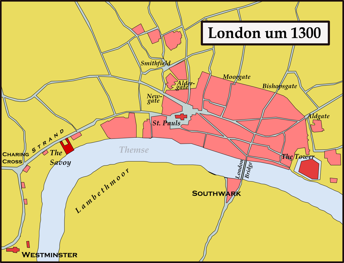 Map of London around the year 1300 with the Savoy Palace